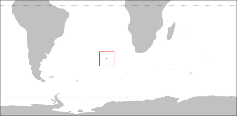 Position of Tristan da Cunha Group drawn by varp